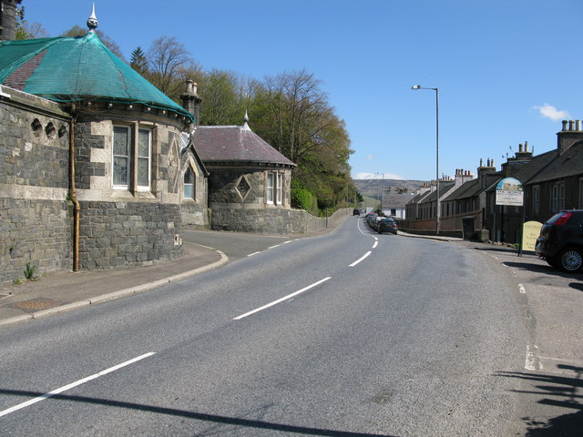 Leaving Walkerburn to the East Looking east along Galashiels Road (A72).